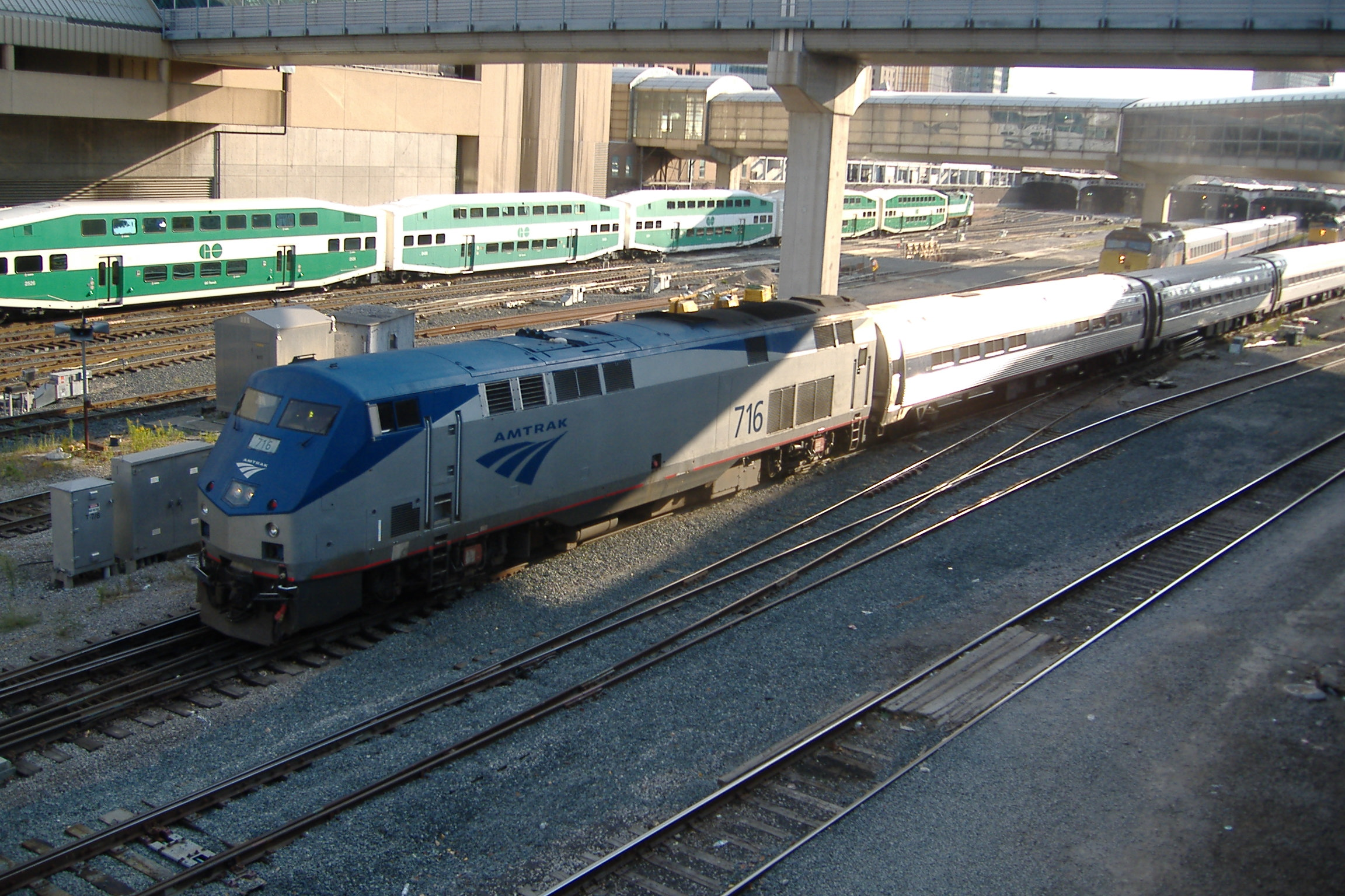 Amtrak #64 / Via Rail #97 Maple Leaf departing Toronto Union Station.